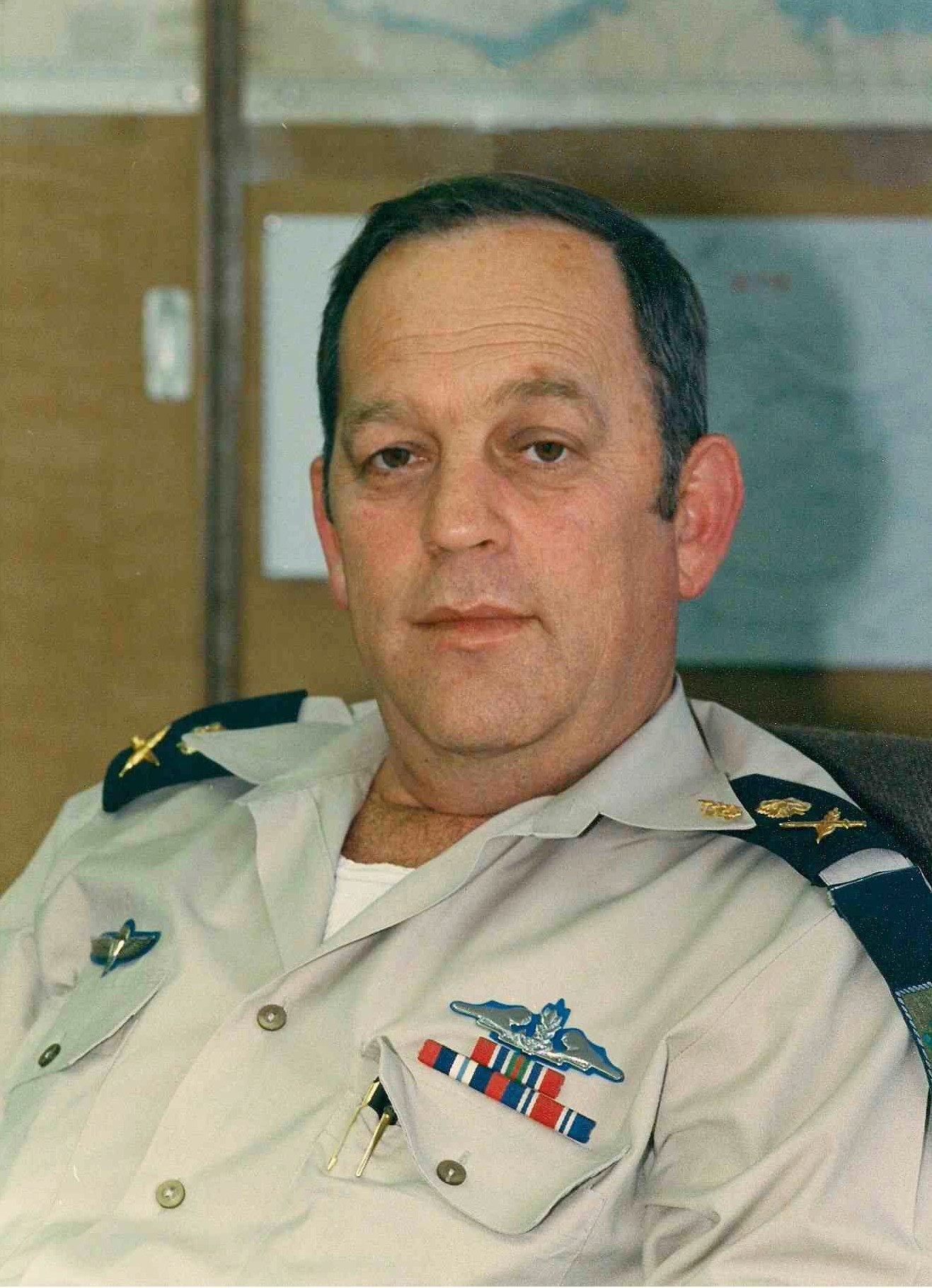 Admiral Micha Ram